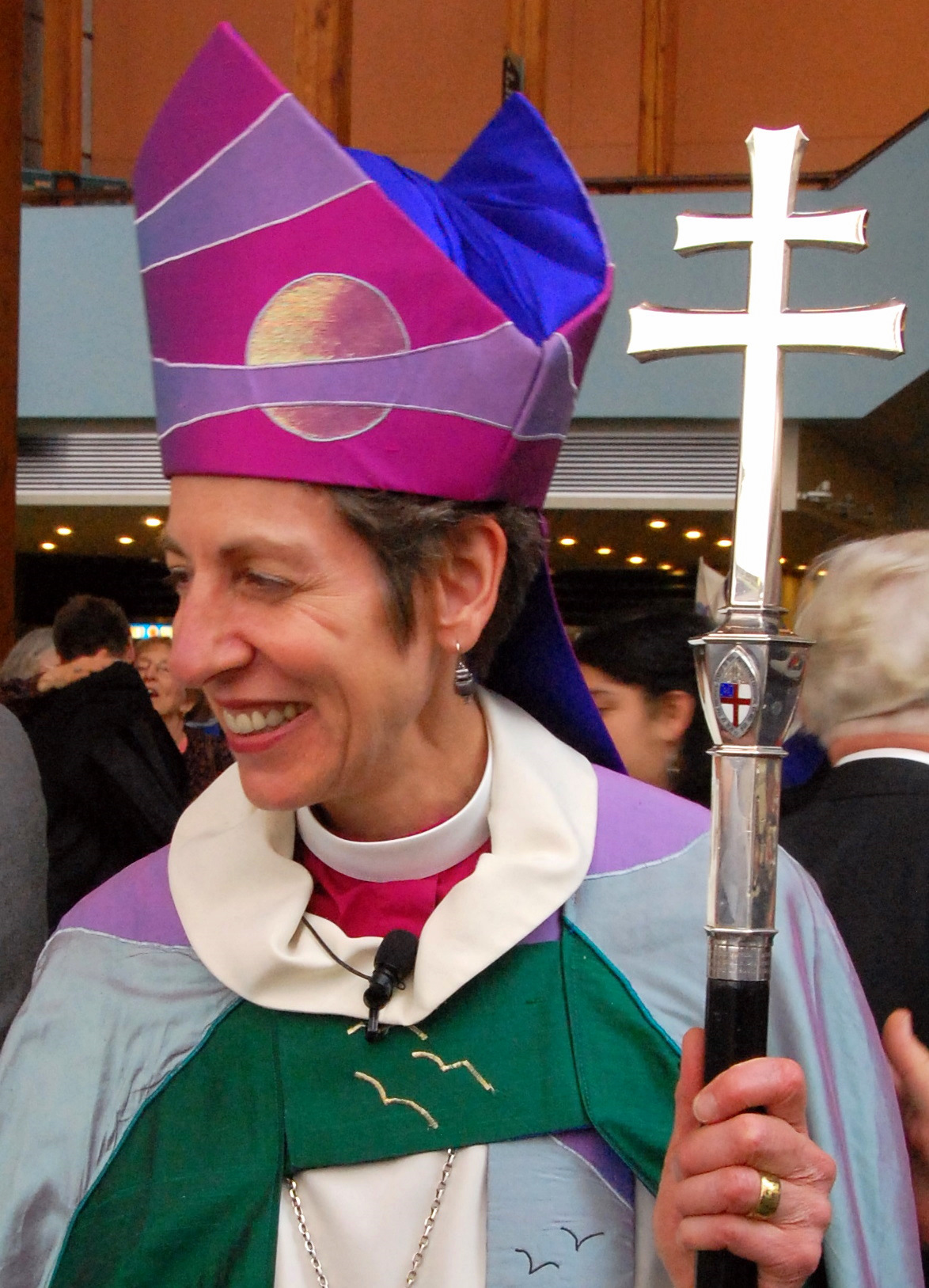 Katharine Jefferts Schori, Presiding Bishop of the Episcopal Church of the United States is seen greeting attendees at the consecration of the 10th Bishop of the Western Diocese of Oregon in Eugene, the Right Reverend Michael Hanley, Oregon on April 10, 2010.